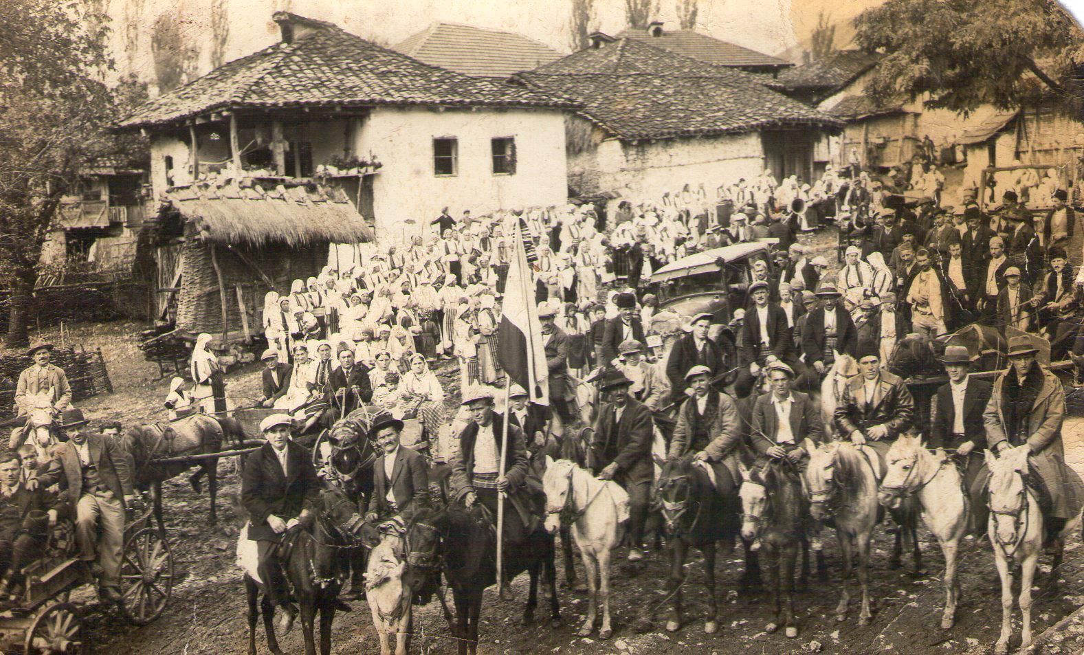 Raotince, Macedonia in 1935